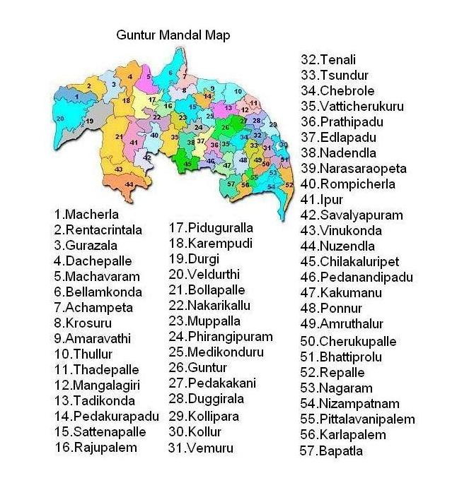 It is about the tehsils or the sub divisions of administration in Guntur district of Andhra Pradesh state of India